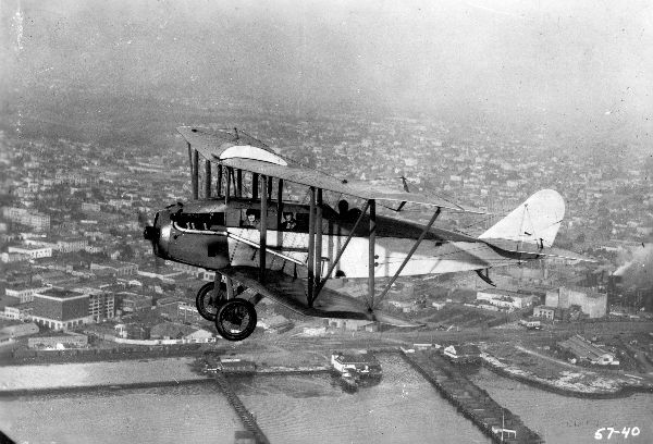 Dick Bowman is the pilot of the Ryan Standard on passenger flight to LA. This plane was christened 'Oneta,' the name of the ranch of Henry Bowlus' family. 35 gallon fuel tank above wing.